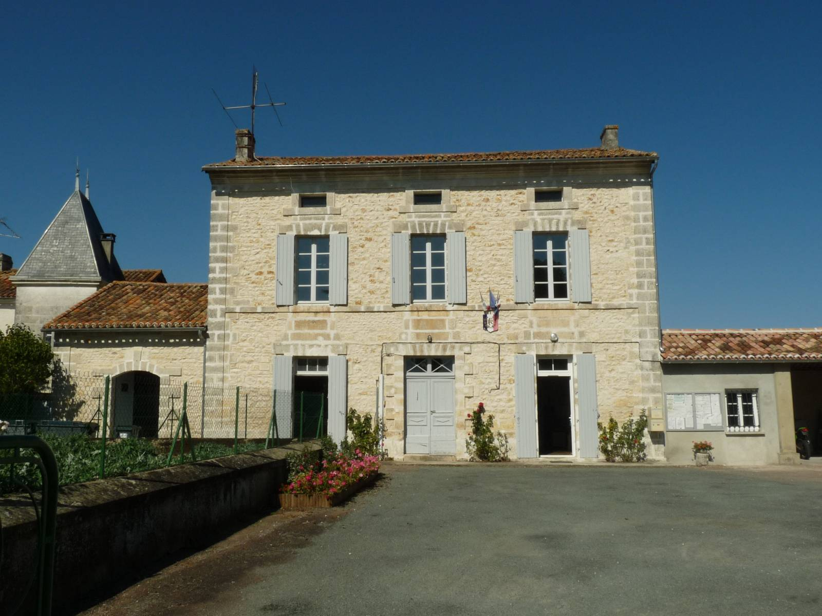 town hall of Les Graulges, Dordogne, SW France